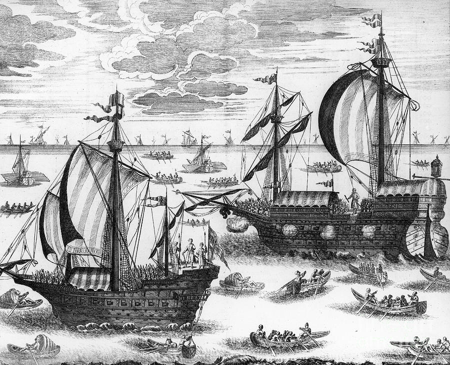 Azov Navy. Line engraving from Diarium Itineris in Moscovium by Johann Georg Korb, 1700.